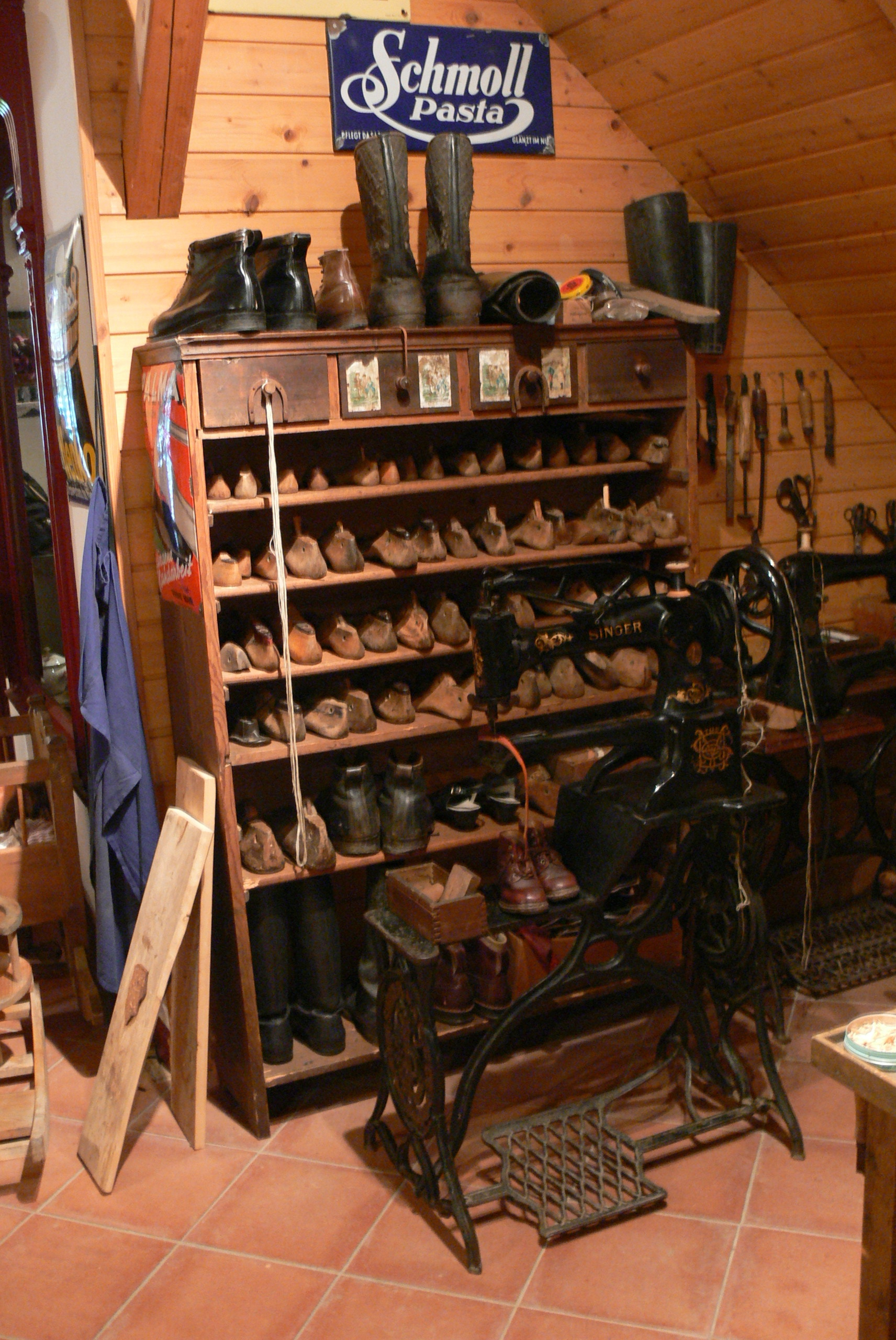 Kautzen ( Lower Austria ). Living Museum: Shoemaking.